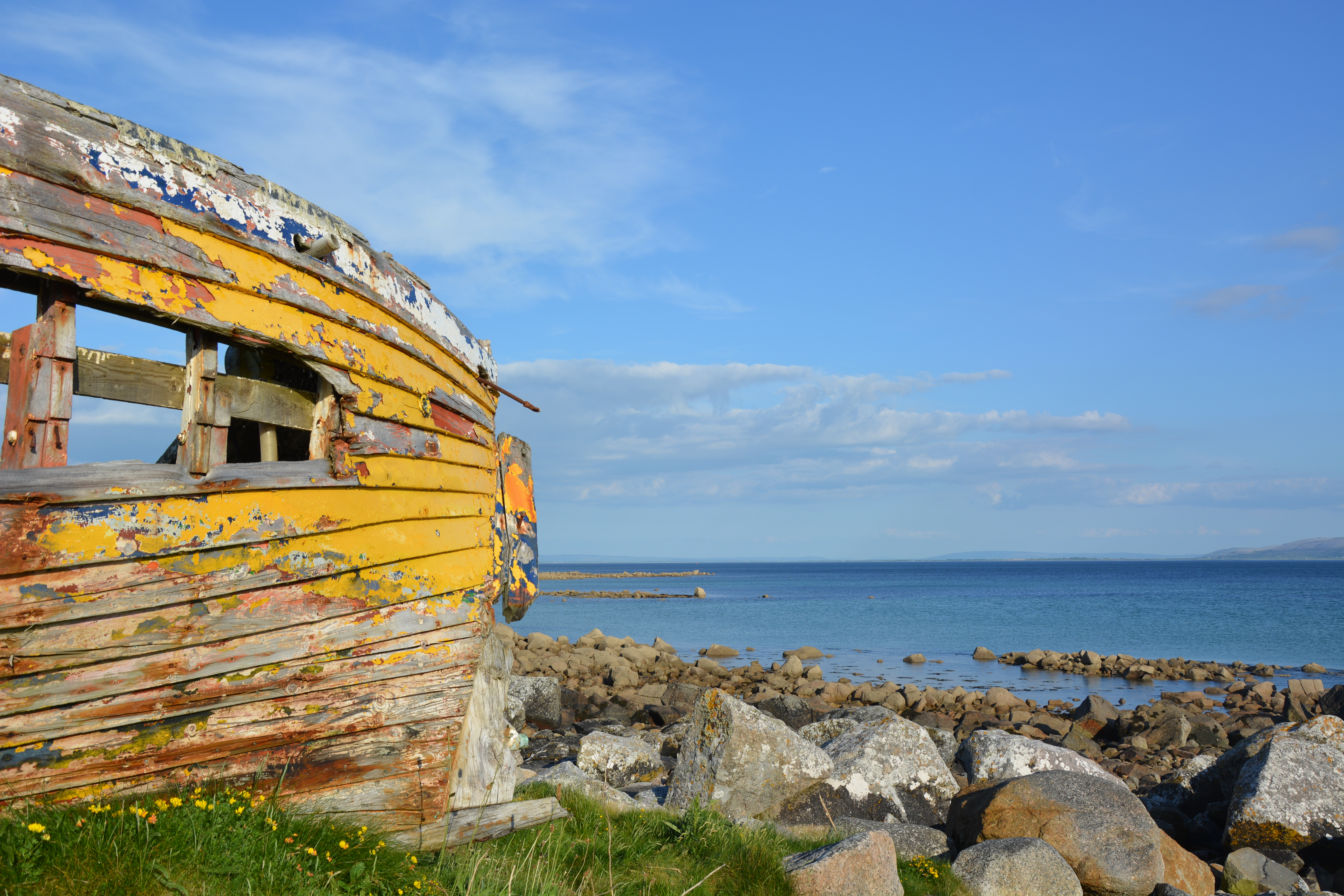 Old boat on the shore of Galwy (Barna), Ireland